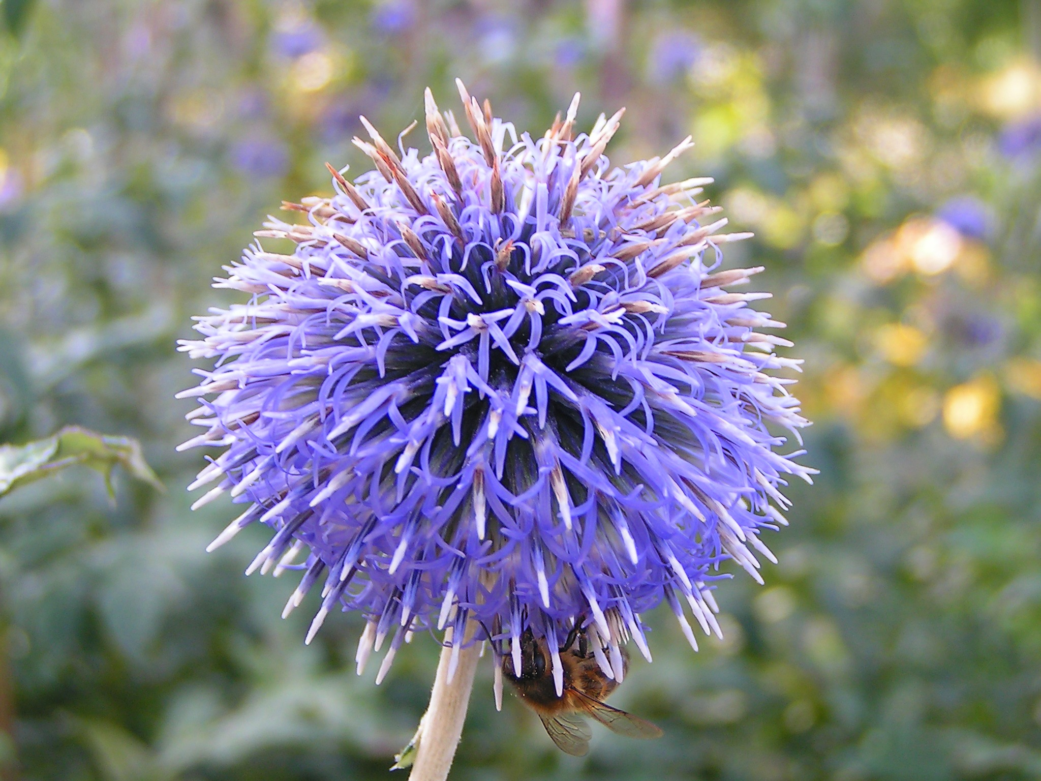 Echinops bannaticus 2005, sep 4 by pethan Botanical Gardens Utrecht University